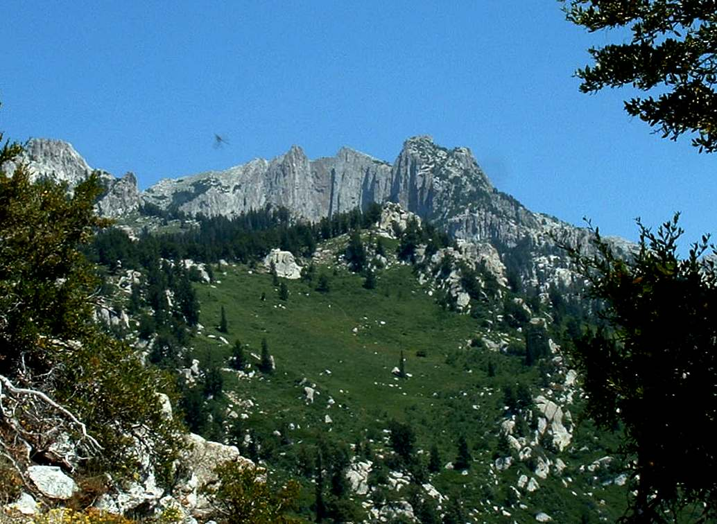 Picture taken by Brandon Lake and Jeff McGrath in 2004.